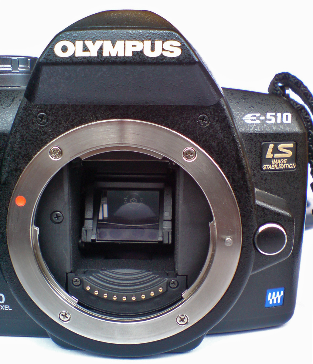 4:3 (four thirds) lens mount on camera body